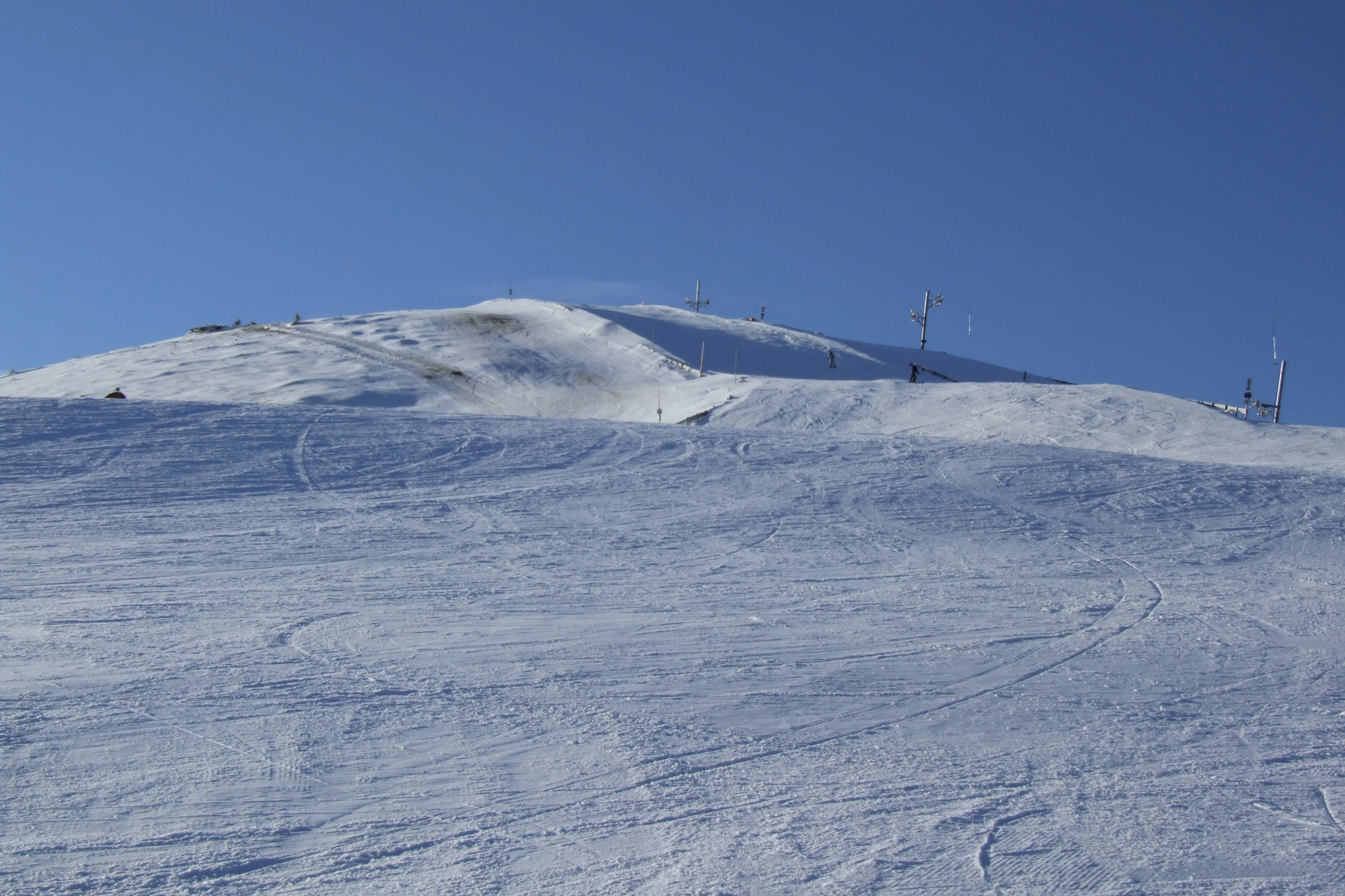 Red (medium) ski slope in Park Snow Donovaly, Slovakia